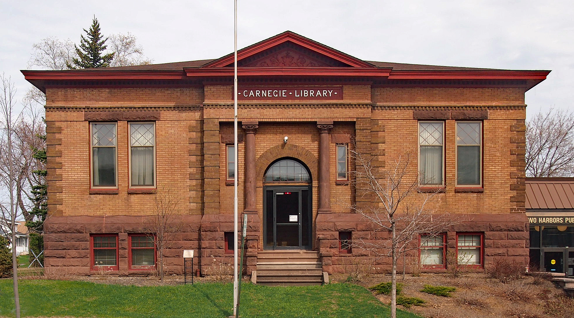 Original Carnegie wing of Two Harbors Public Library, 320 Waterfront Ave, Two Harbors, Minnesota, USA. Viewed from the west.